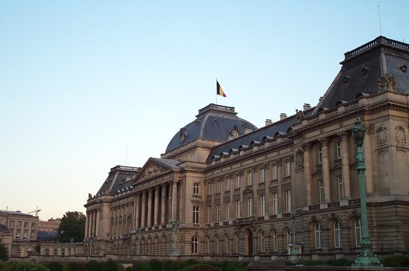 The royal palace in Brussels. Copyright © 2004-06 Kaihsu Tai From Image:RoyalPalaceBrussel_Copyright200406KaihsuTai.jpg